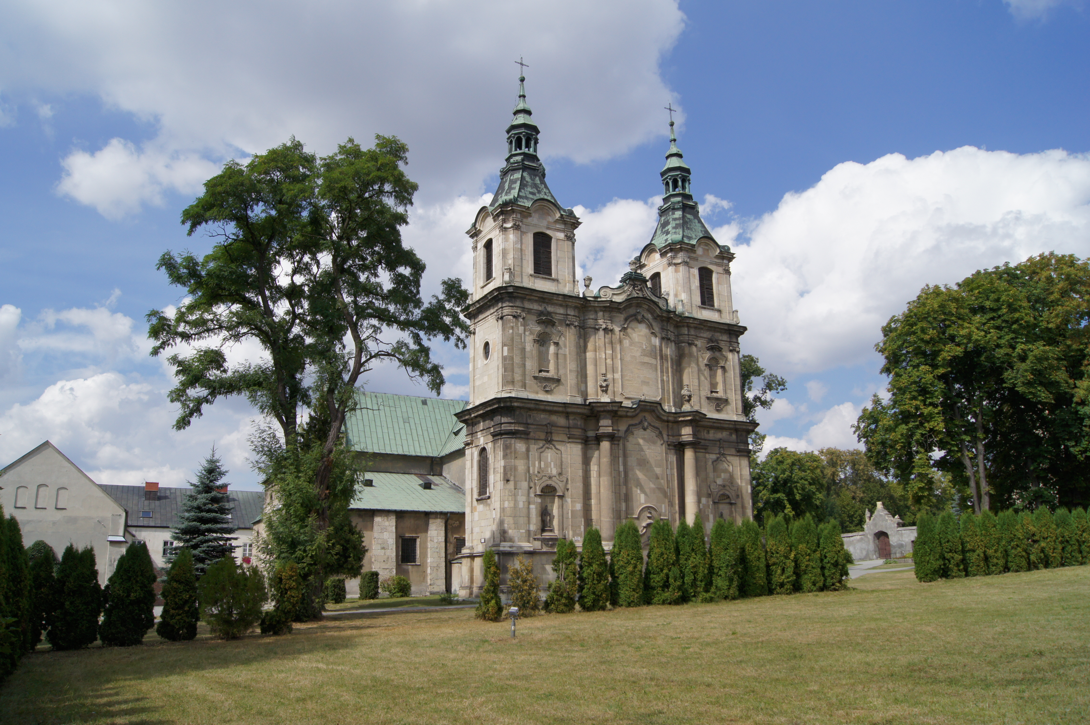 Cistercian Abbey in Jędrzejów Native nameArchiopactwo Cystersów w JędrzejowieLocationJędrzejówCoordinates50° 39′ 13″ N, 20° 17′ 04″ E Established1140Authority control : Q1775407